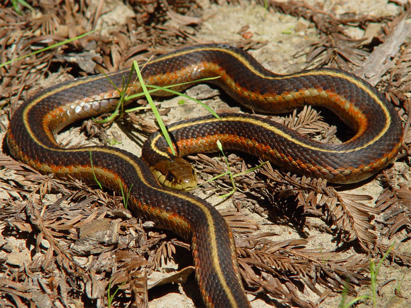 Description: Thamnophis elegans terrestris "red morph", family Colubridae Location: Pescadero Creek County Park - San Mateo County, CA (USA) Date: April 10, 2004 Photographer: Franco Folini